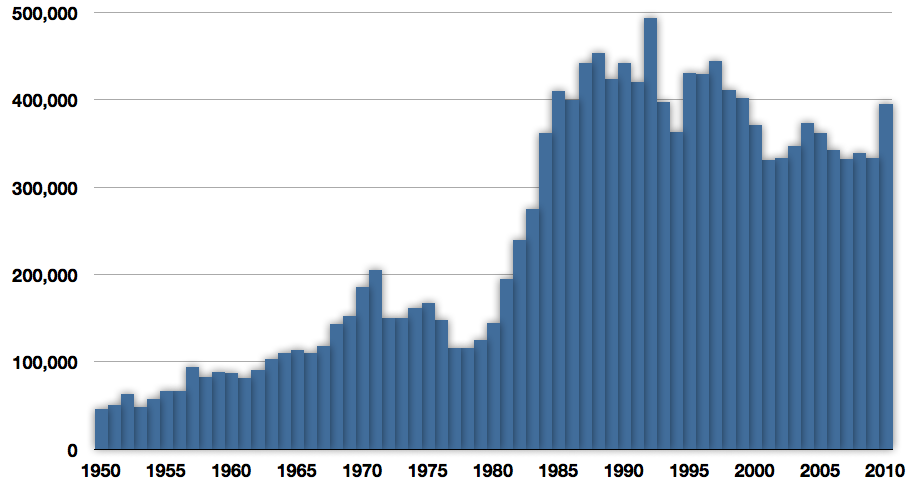 Global fisheries capture of the Pacific cod, Gadus macrocephalus, from 1950 to 2010 as reported by the FAO. Data source FAO fisheries